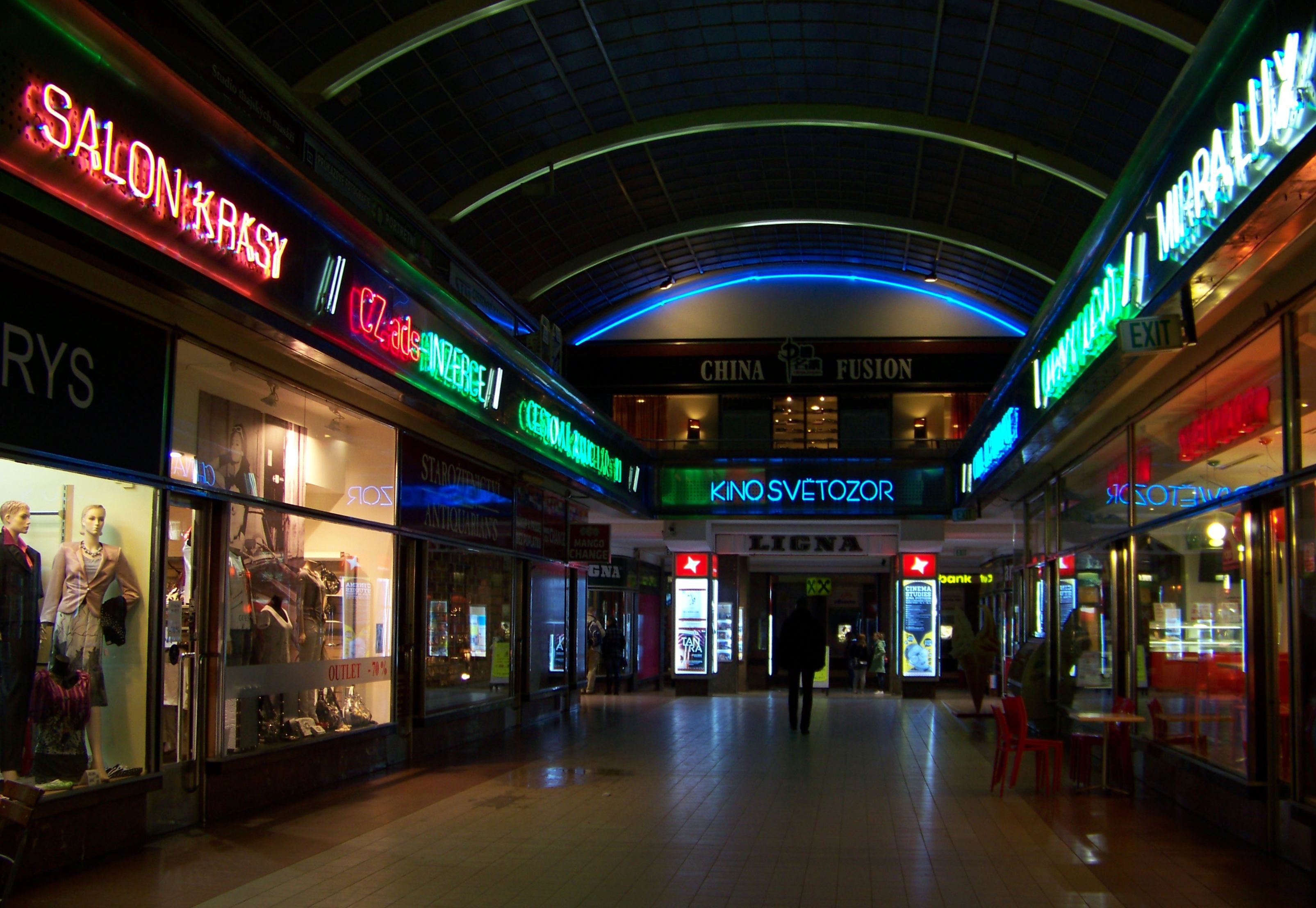 Prague-New Town, the Czech Republic. Světozor Passage.